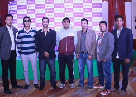 Nepali player at press conference of NCELL NPL 2014